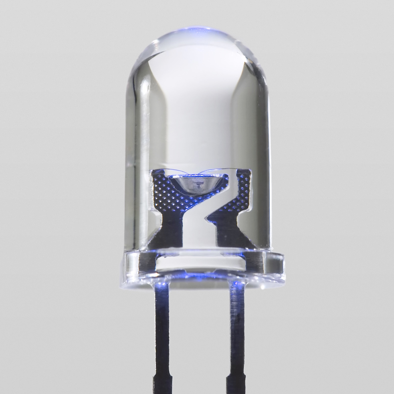 Illuminated Blue LED Photography by Wikipedia User MrX